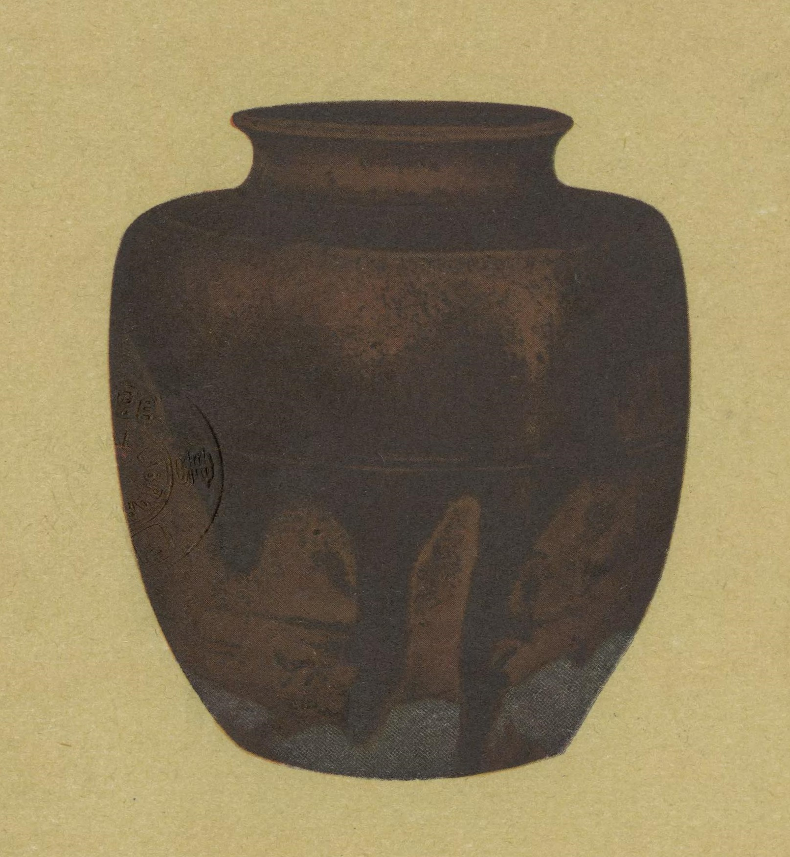 Color front view of Hatsuhana Katatsuki, Important Cultural Property of Japan. The collection of Tokugawa Memorial Foundation.